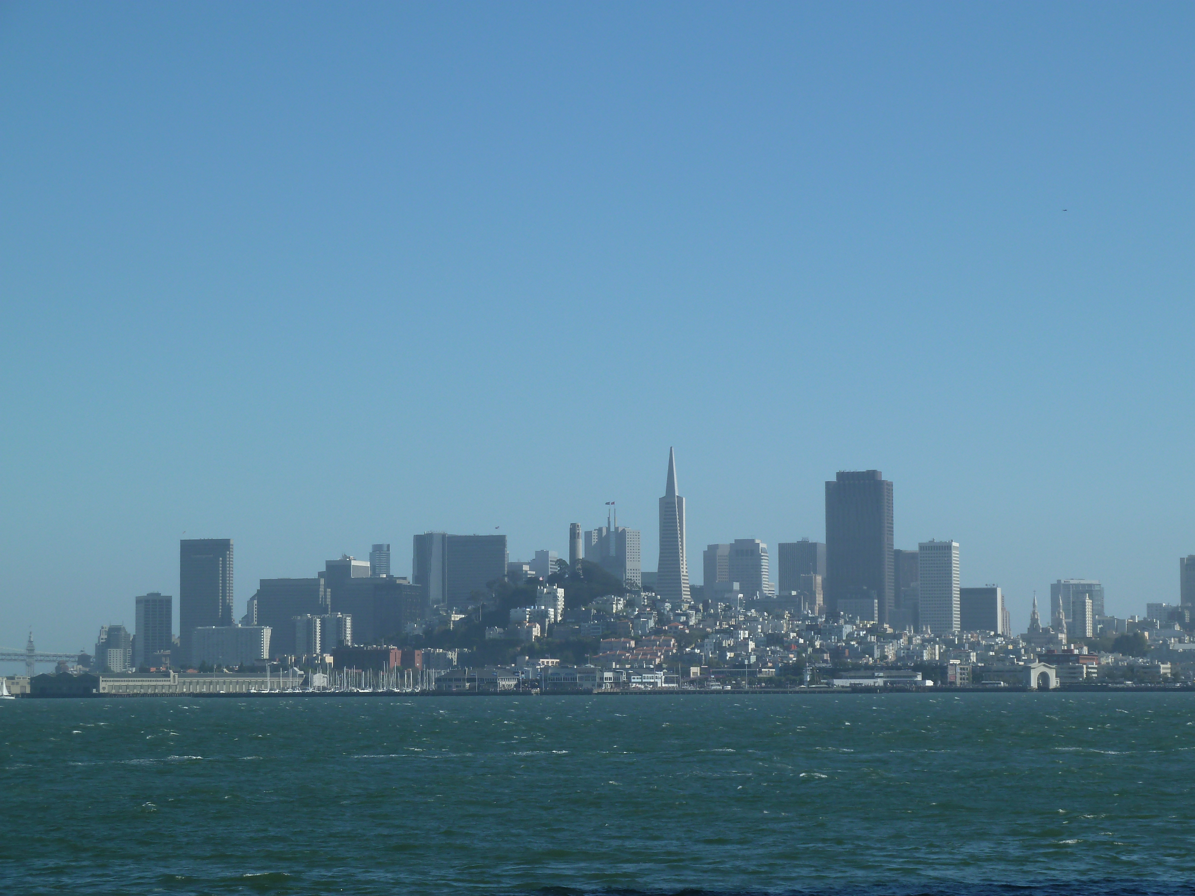 The view of the San Francisco skyline from the sf bay.